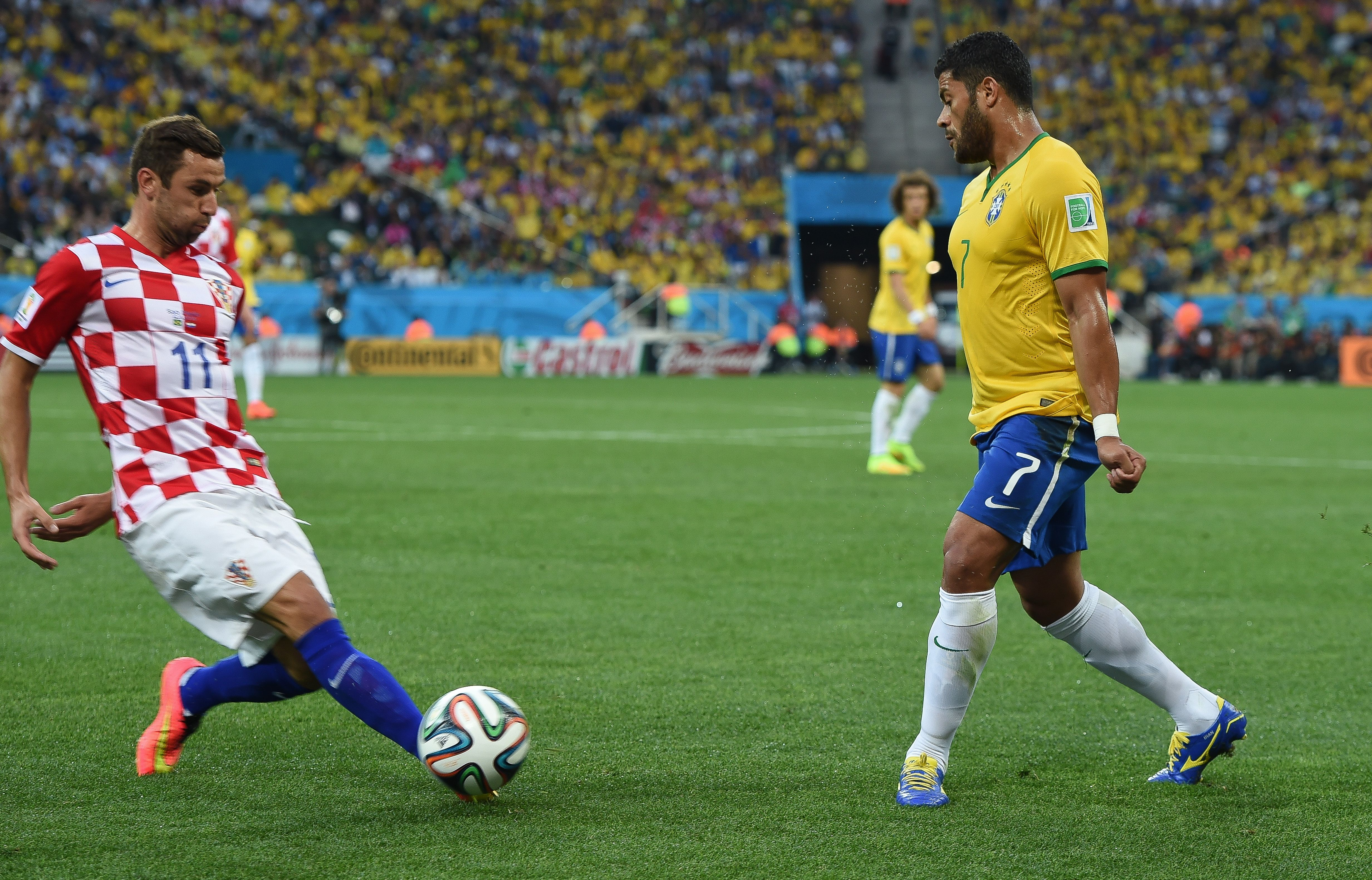 Brazil and Croatia match at the FIFA World Cup 2014-06-12